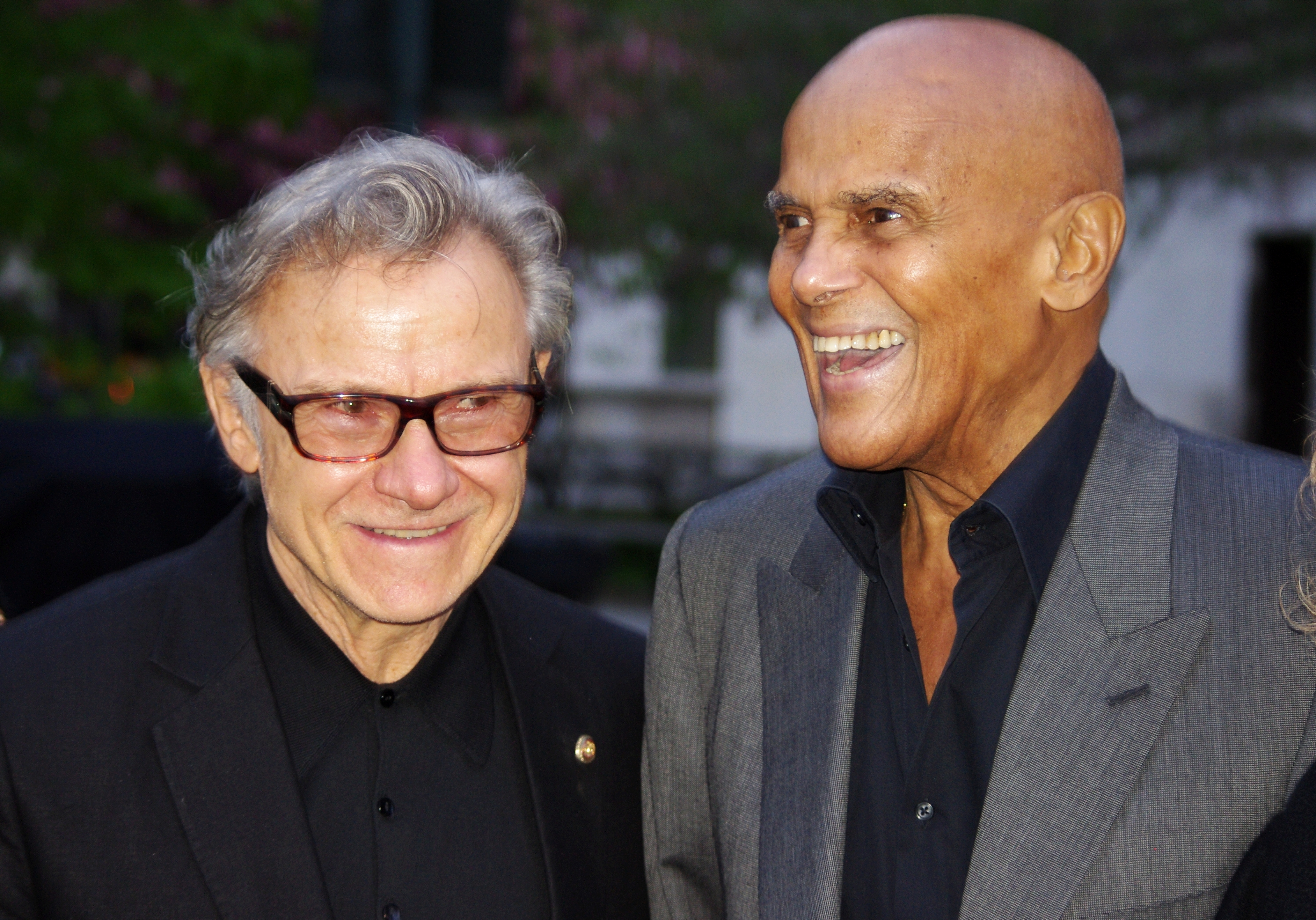 Harvey Keitel and Harry Belafonte at the Vanity Fair party celebrating the 10th anniversary of the Tribeca Film Festival.